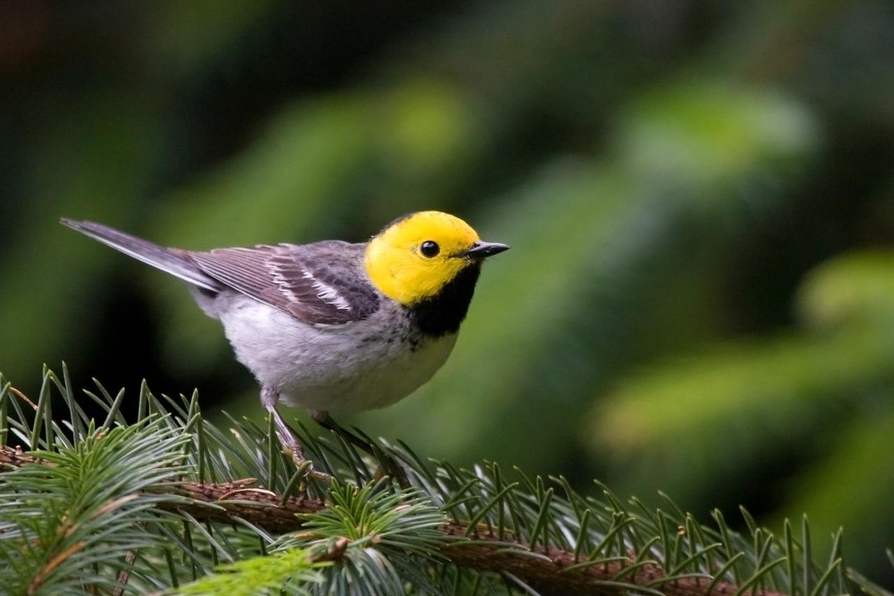 Hermit Warbler (Dendroica occidentalis) Male at Ecola State Park, Clatsop Co., Oregon (6/21/10)